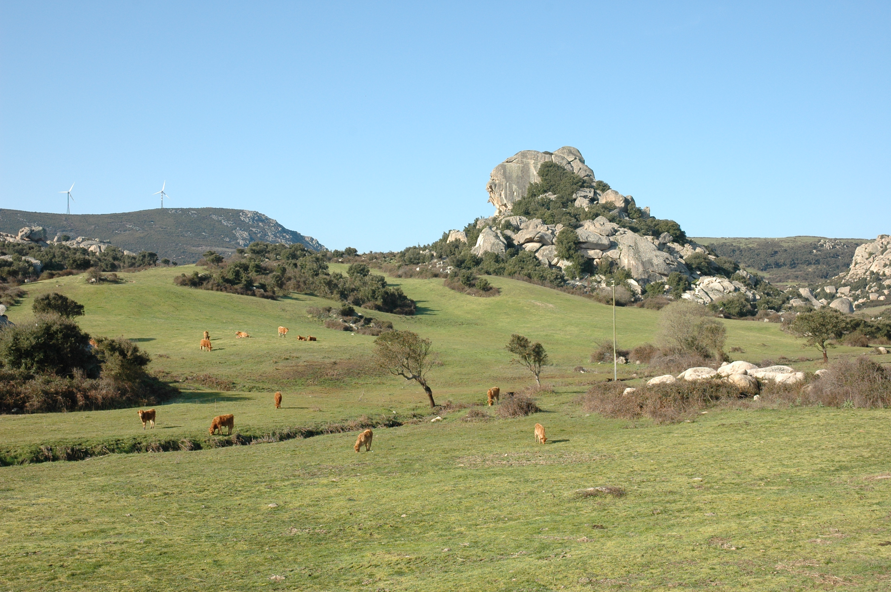 Valle della Luna, Sardinia, Italy